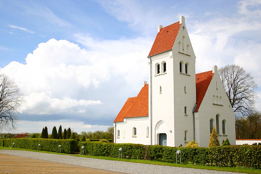 Villingeroed Church, Villingeroed parish, Holbo Herred, Frederiksborg County, Denmark.